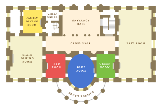 Floor plan of White House State Floor, which features the State Dining Room, East Room, Red Room, Blue Room, Green Room, Cross Hall, Entrance Hall, Grand Staircase, Family Dining Room, Chief Usher's office, and South Portico